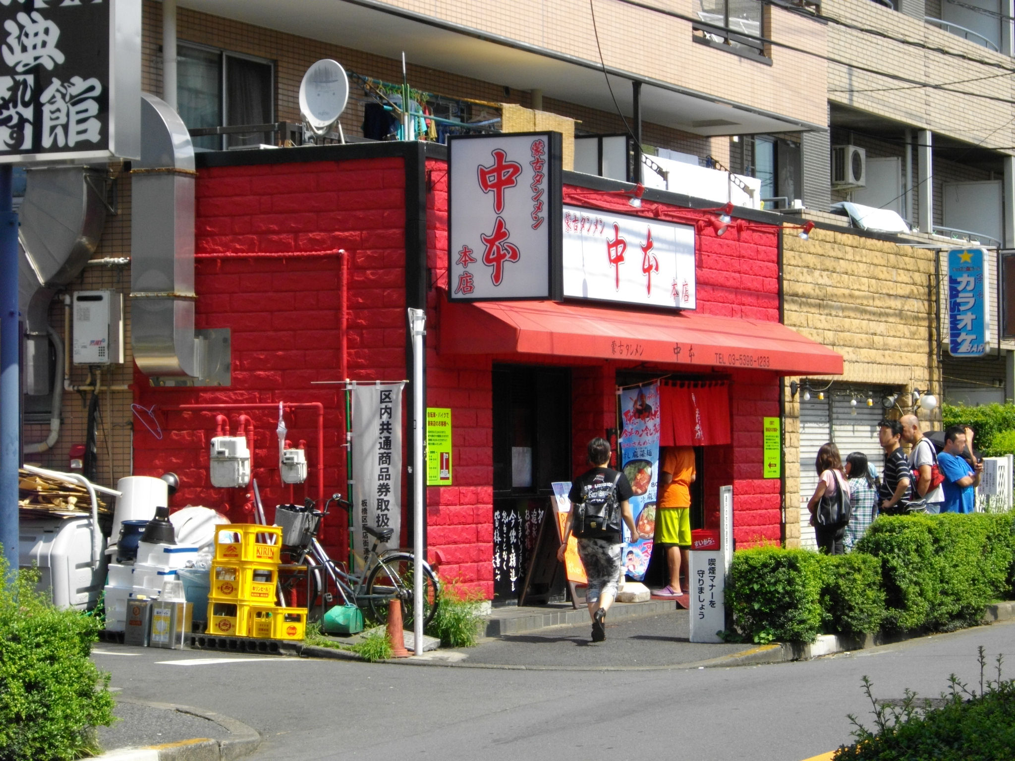 Mouko Tanmen Nakamoto Head Shop